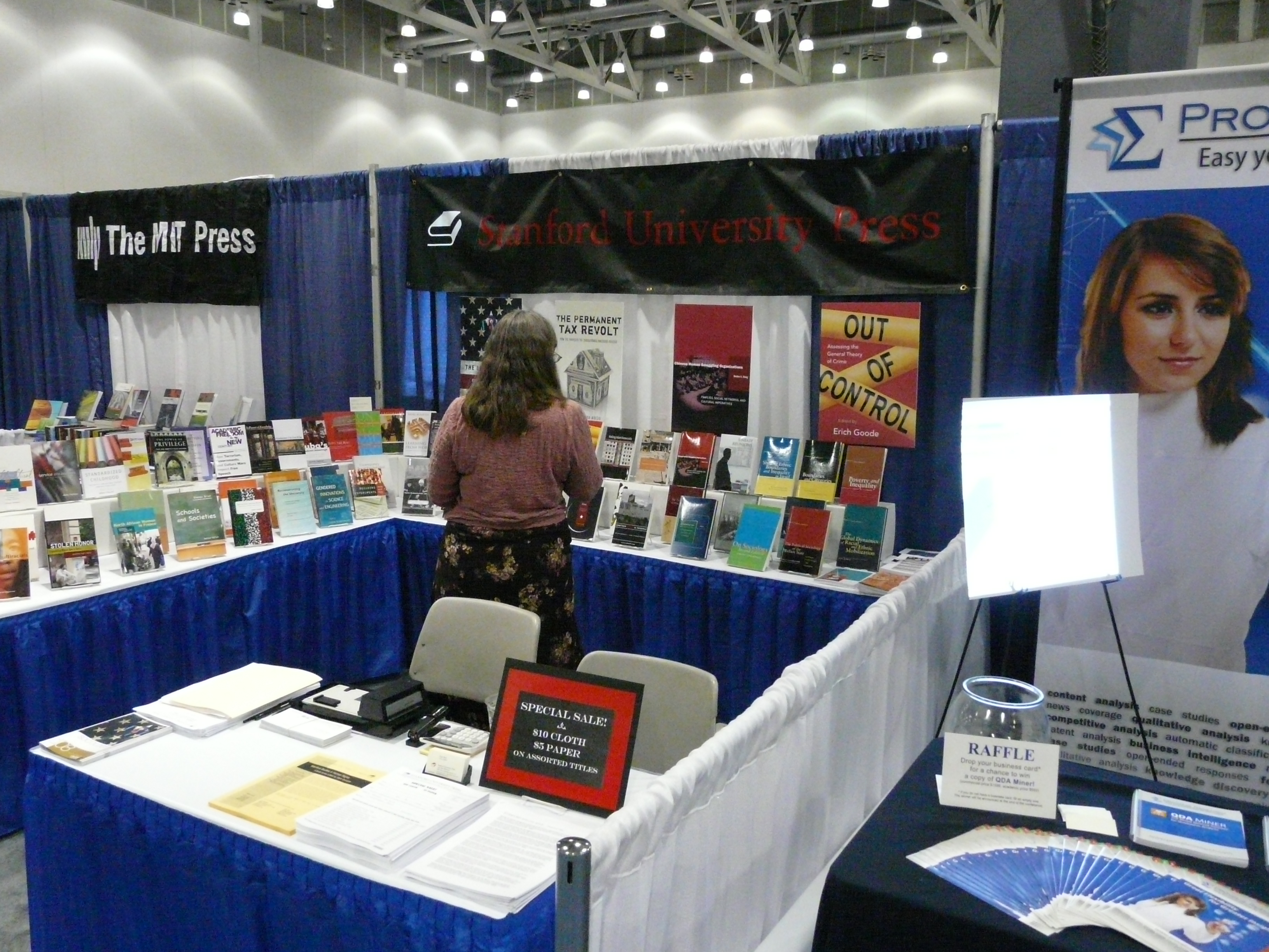 Boston. American Sociological Association conference.